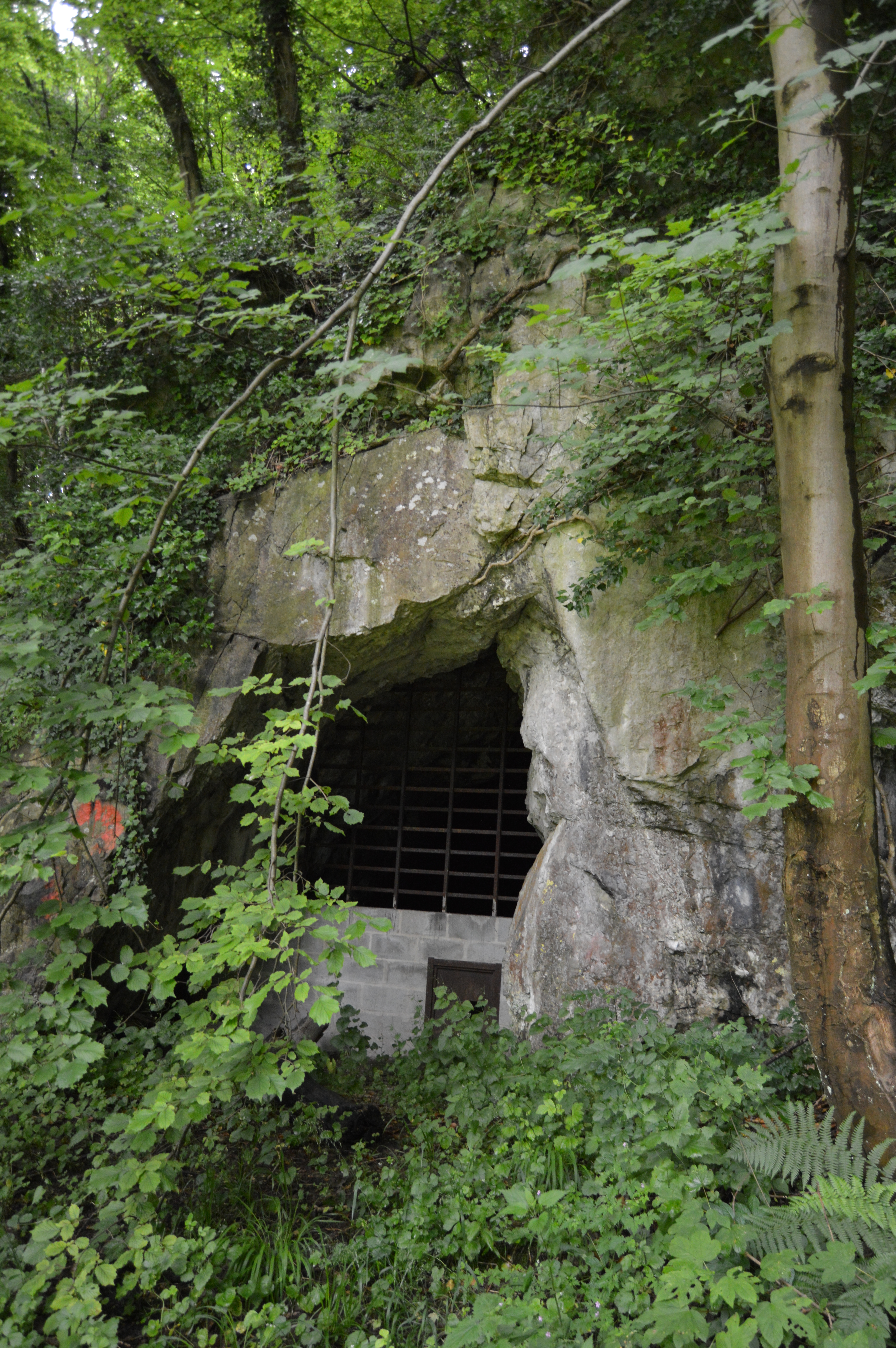 Fond-de-Foret Cave N° 1, place of discovery of neandertalian remains in 1895 in Trooz, Liège province, Belgium Reference